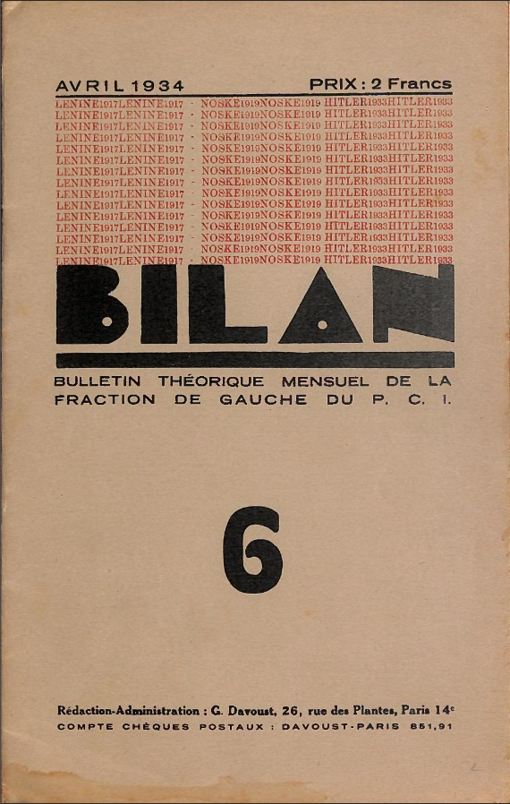 Cover of the issue 6 of the left communist magazine Bilan, published at April 1934